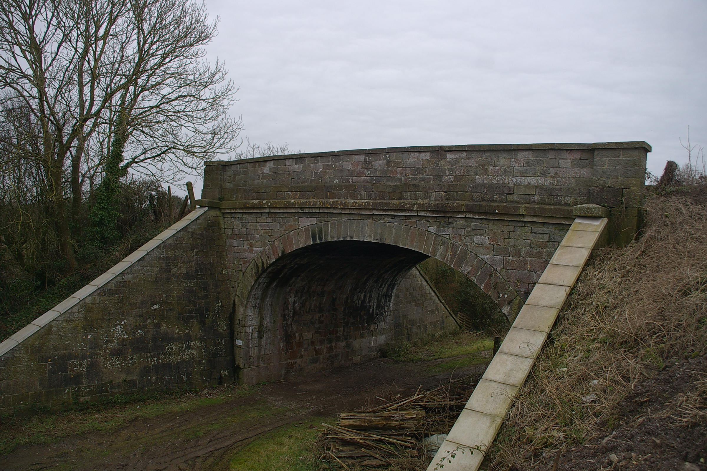 The Lampley Road bridge over the Clevedon Branchline.